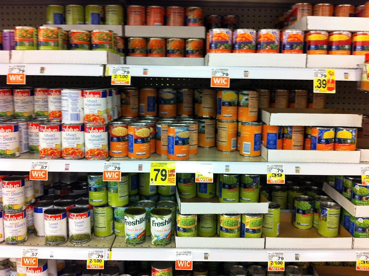 Canned vegetables at Kroger